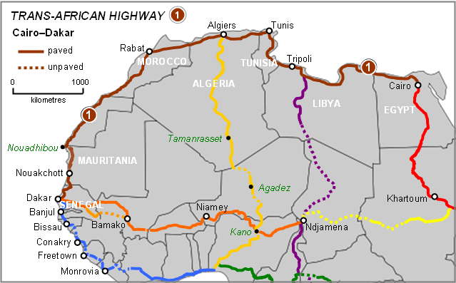 This revised map shows paved roads through Maaritania, Egypt to Sudan, Nigeria to Cameroon.